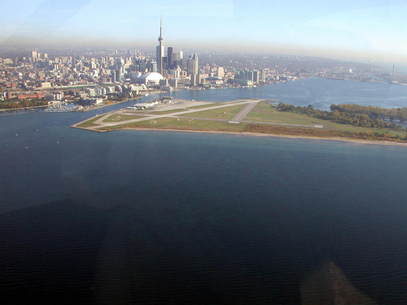 Toronto City Centre Airport (CYTZ) looking from the southwest.